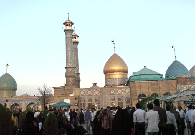 Shah Abdol Azim shrine